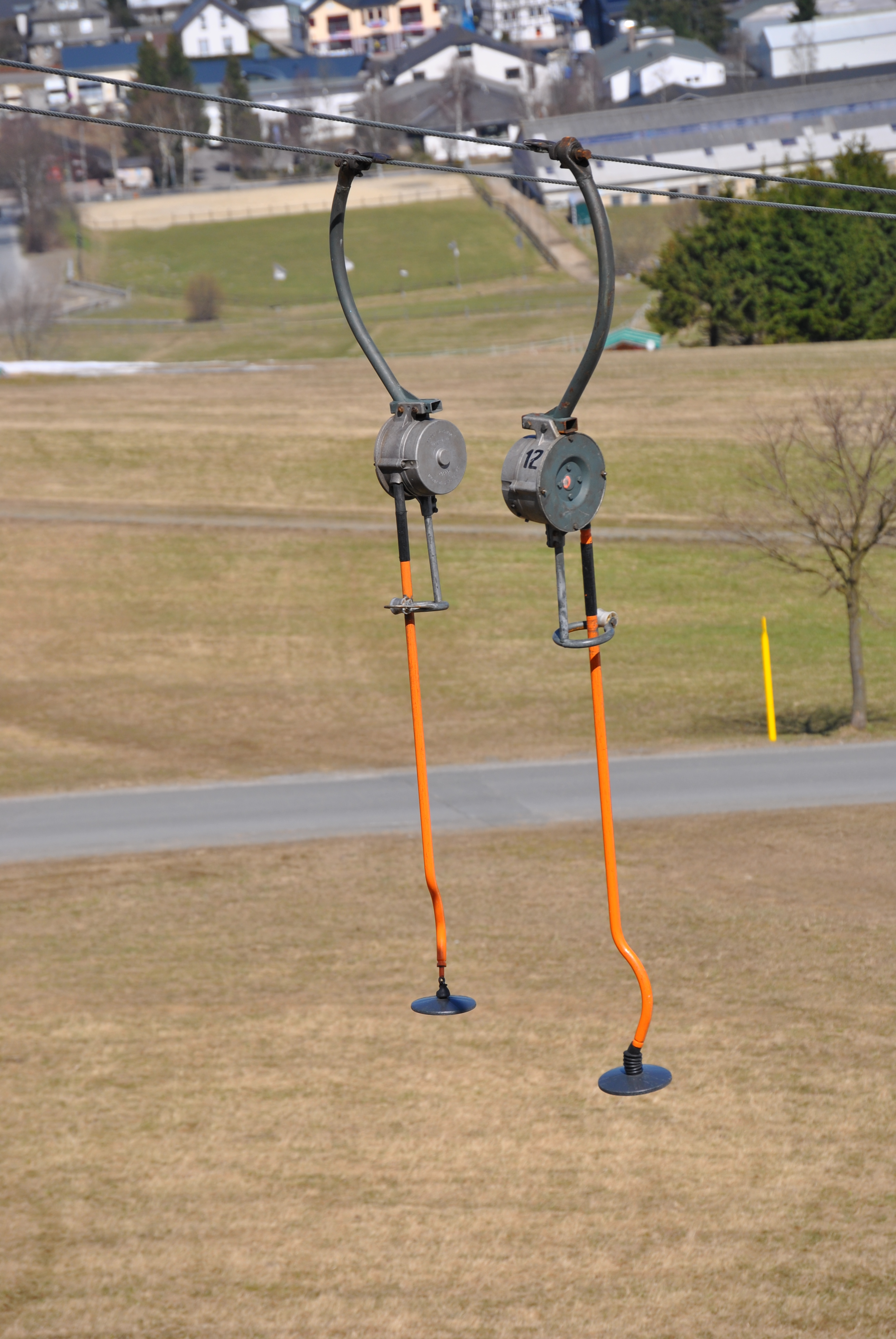 Two hangers of a button lift. Photo taken in Willingen, Hesse, Germany.